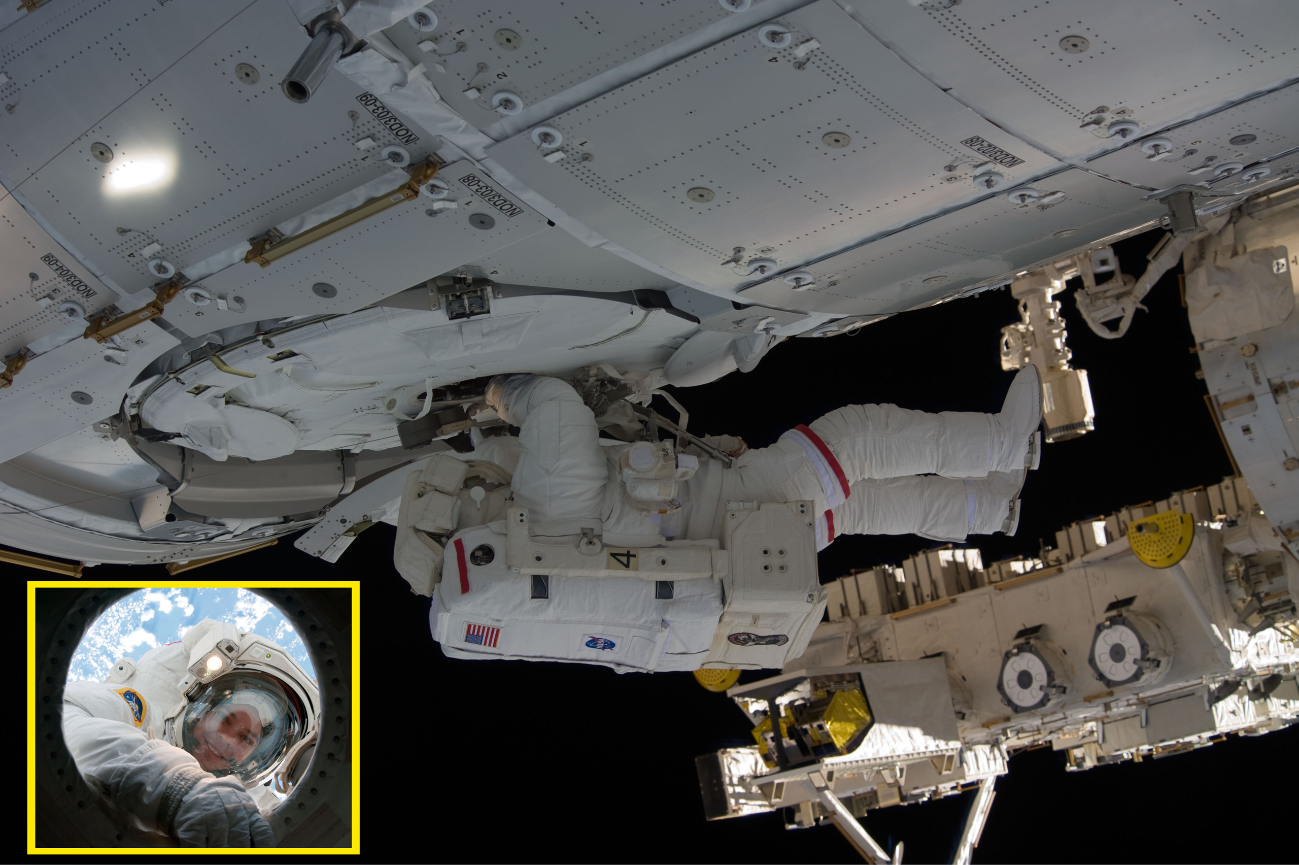 Main: NASA astronaut Robert Behnken, STS-130 mission specialist, participates in the mission's second session of extravehicular activity (EVA) as construction and maintenance continue on the International Space Station. During the five-hour, 54-minute spacewalk, Behnken and astronaut Nicholas Patrick (out of frame), mission specialist, connected two ammonia coolant loops, installed thermal covers around the ammonia hoses, outfitted the Earth-facing port on the Tranquility node for the relocation of its Cupola, and installed handrails and a vent valve on the new module. Inset: STS-130 mission specialist Robert Behnken is photographed through the Node 3 / Tranquility nadir hatch window during Expedition 22 / STS-130 Extravehicular Activity 2 (EVA 2). The two photographs are timestamped to the same minute. Merged with Photoshop.